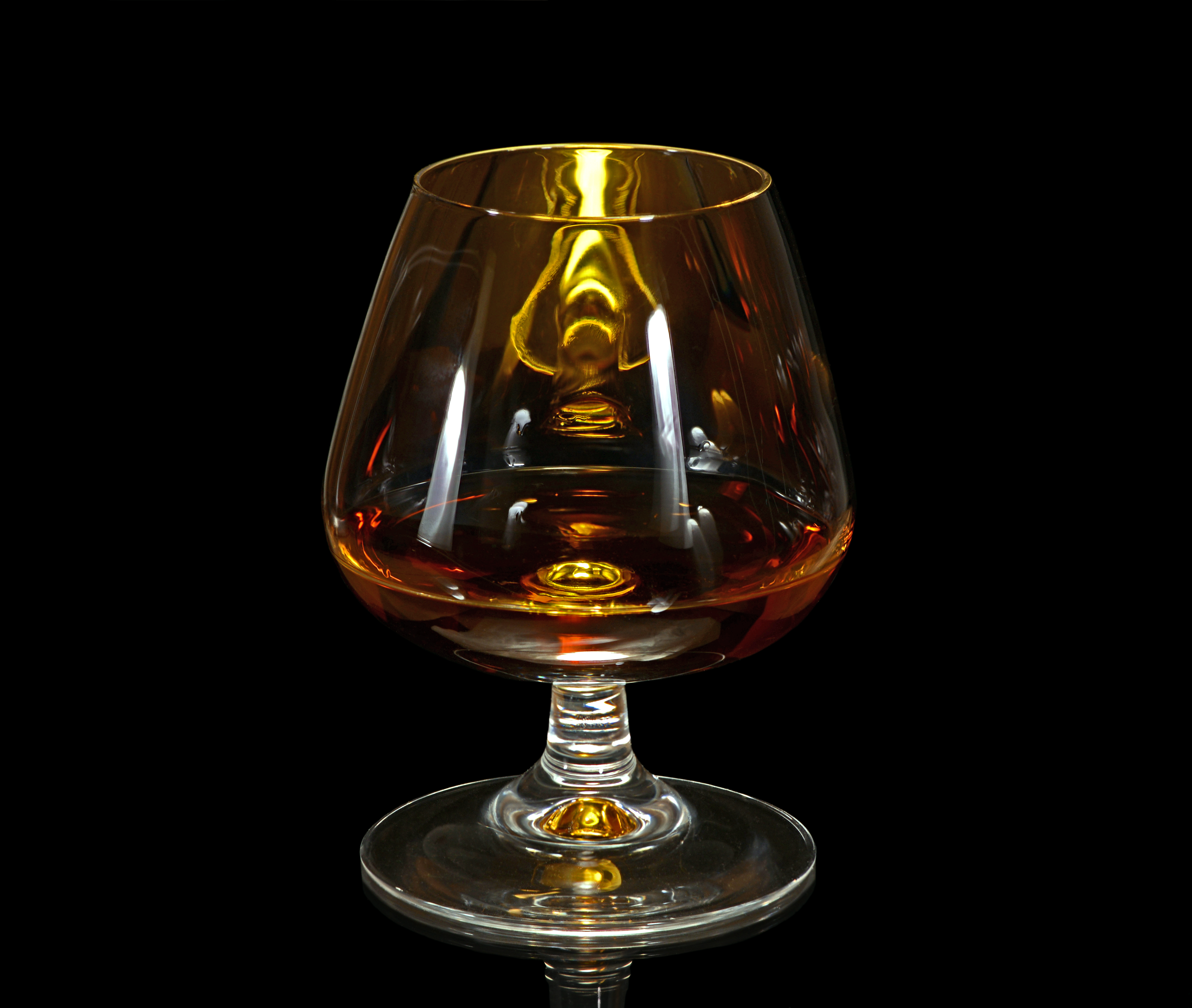 Brandy snifter, or cognac glass, for Cognac or Armagnac.